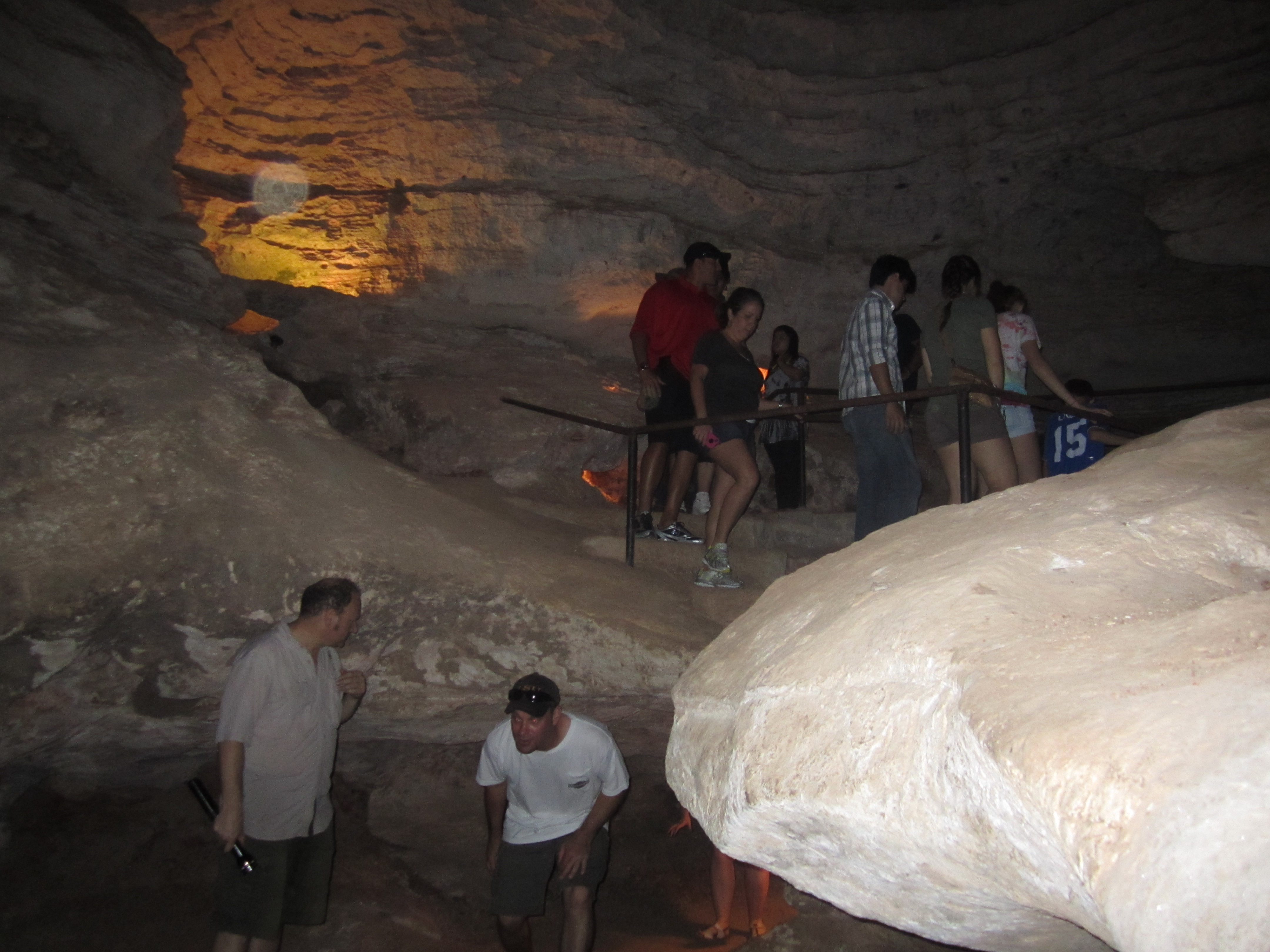 Longhorn Cavern — a Limestone Karst cave in the Texas Hill Country, Central Texas. I took photo at Longhorn Cavern with Canon camera.